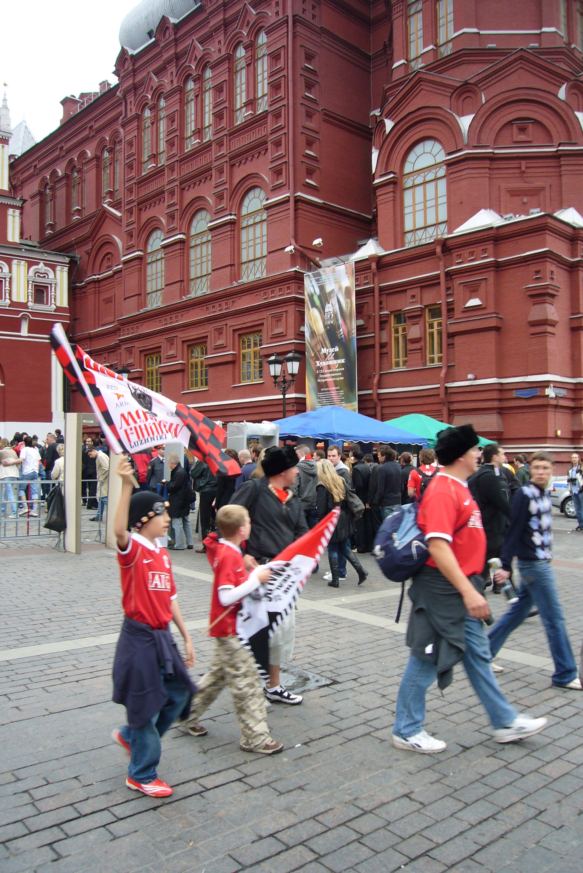 Manchester United fans near the Kremlin, Moscow, on the day of the 2008 UEFA Champions Cup Final, May 21, 2008.